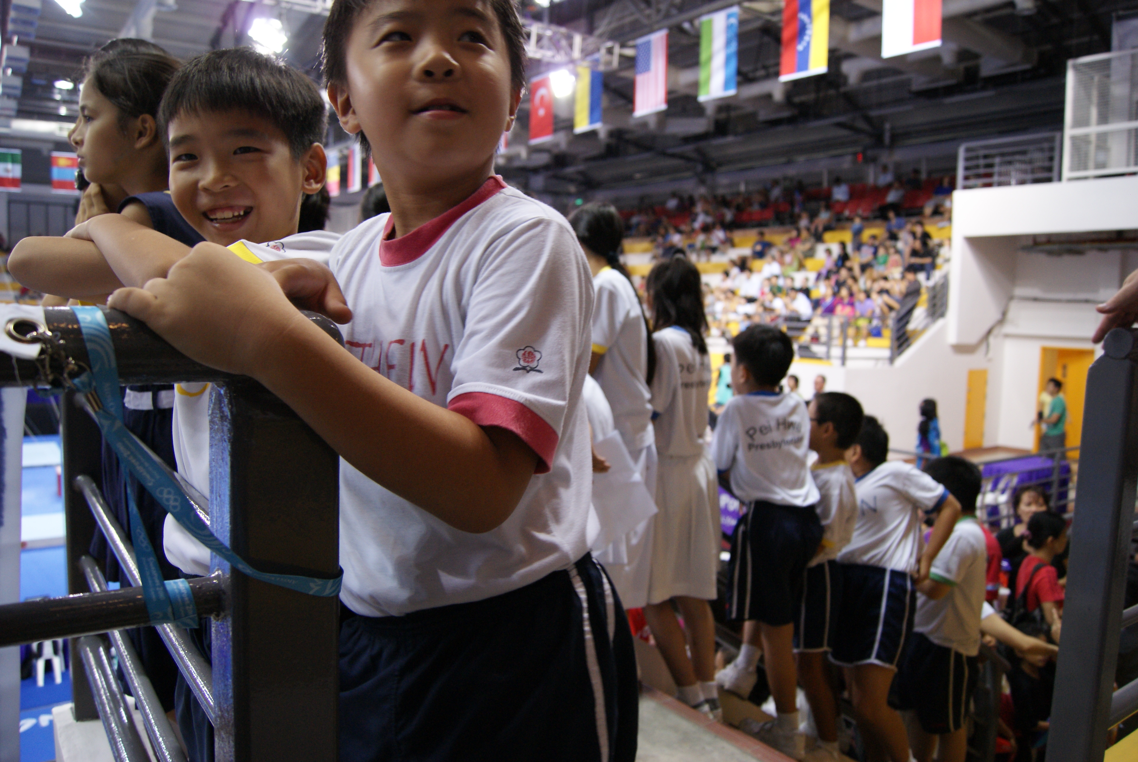 Students watching the Men's Qualification – Subdivision 1 event of the artistic gymnastics competition at the 2008 Summer Youth Olympics in Bishan Sports Hall, Singapore.